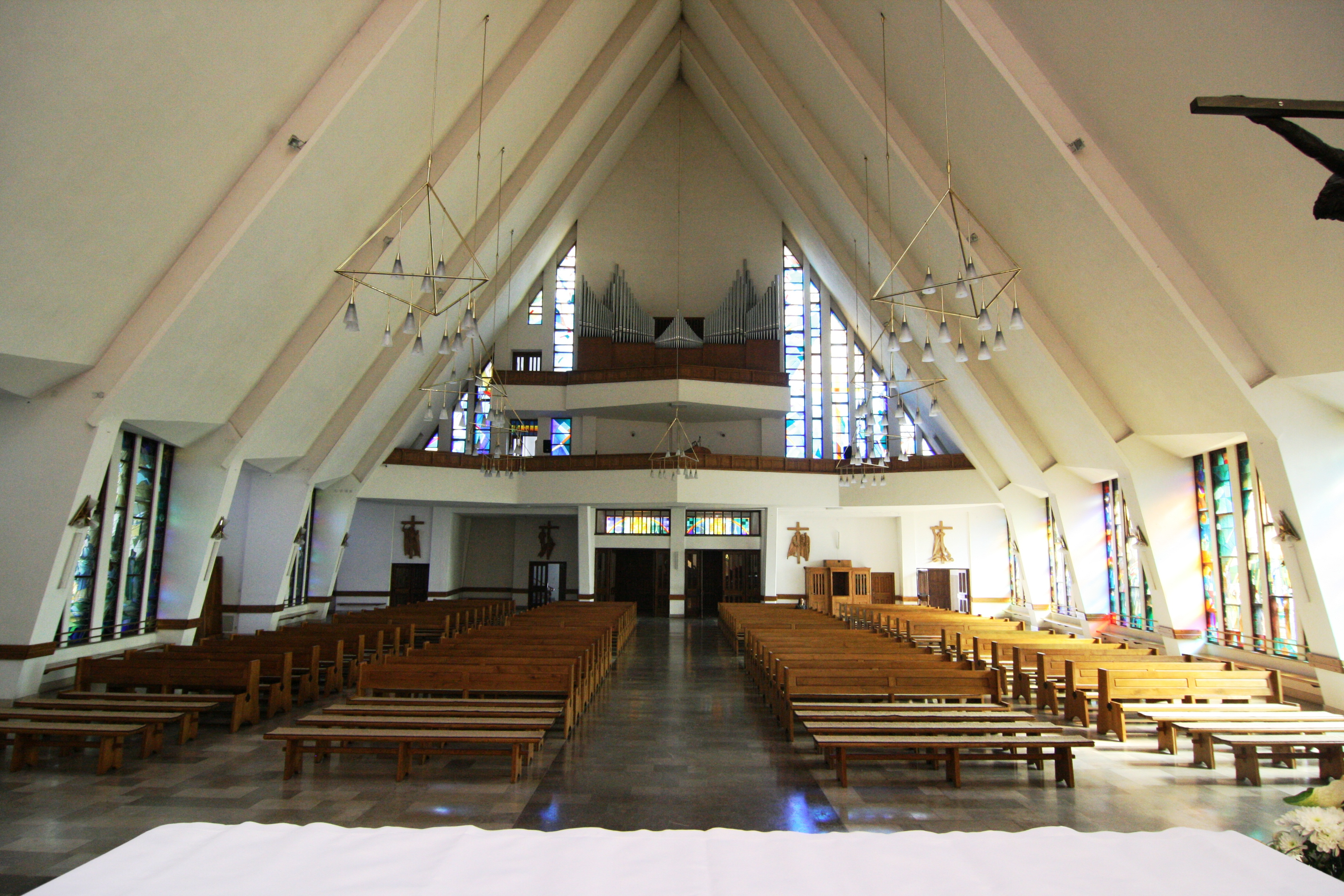 Good Shepherd Church in Krościenko nad Dunajcem (Poland) – interior view from altar